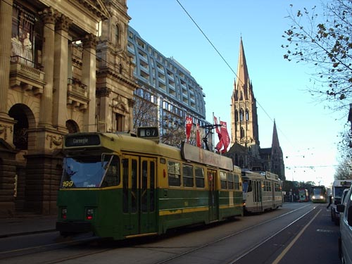 Trams in Melbourne.